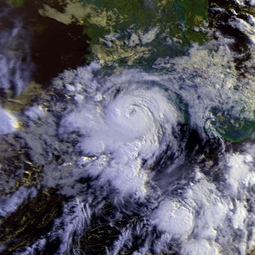 This image shows Hurricane Alma on June 23 at 1336 UTC. This image was produced from data from NOAA-12, provided by NOAA.